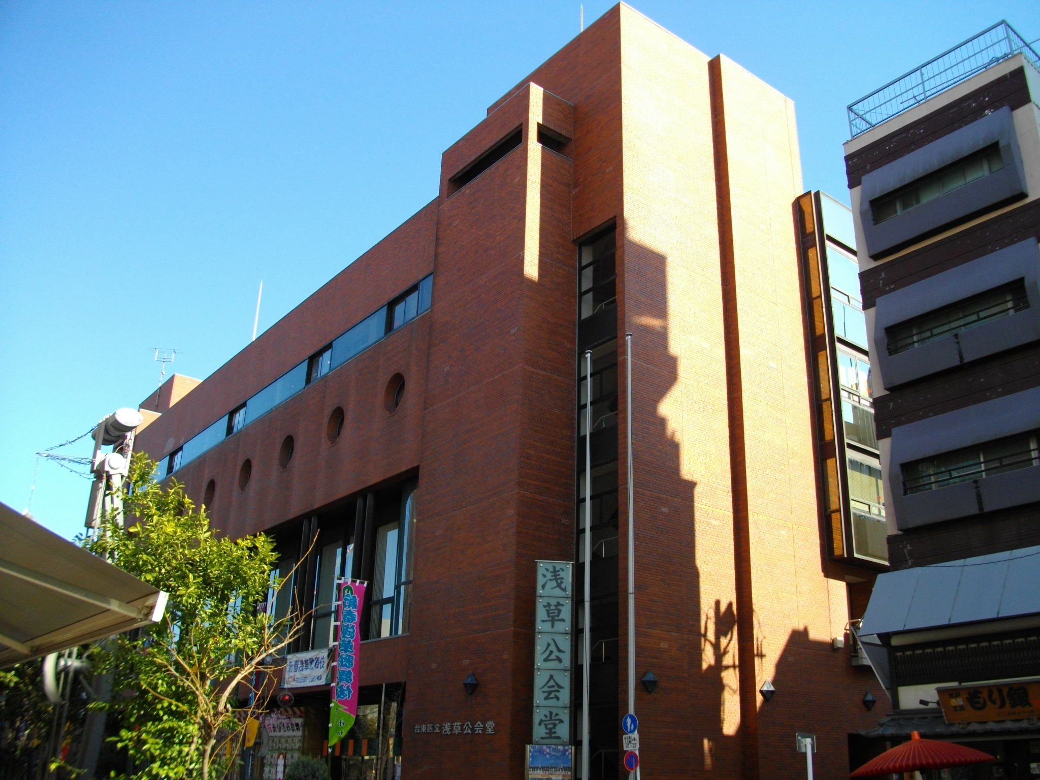 Asakusa Public Hall